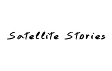 Satellite Stories band logo 2012.